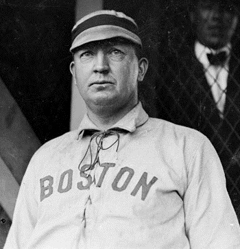 Baseball Player, Cy Young, Boston Americans, standing by grandstand concourse netting[1903]